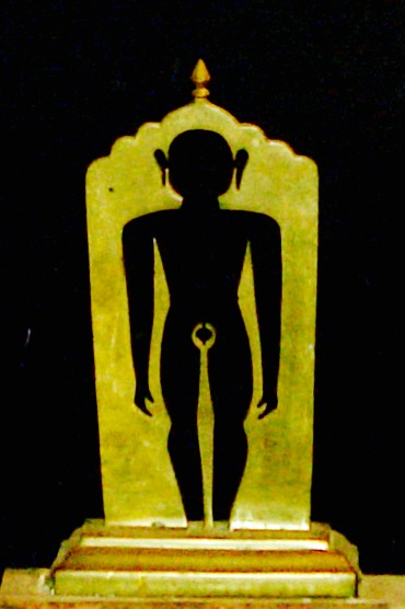 Image of a Liberated soul i.e. those who have attained MOKSHA (Photo: Crafts Museum, New Delhi)